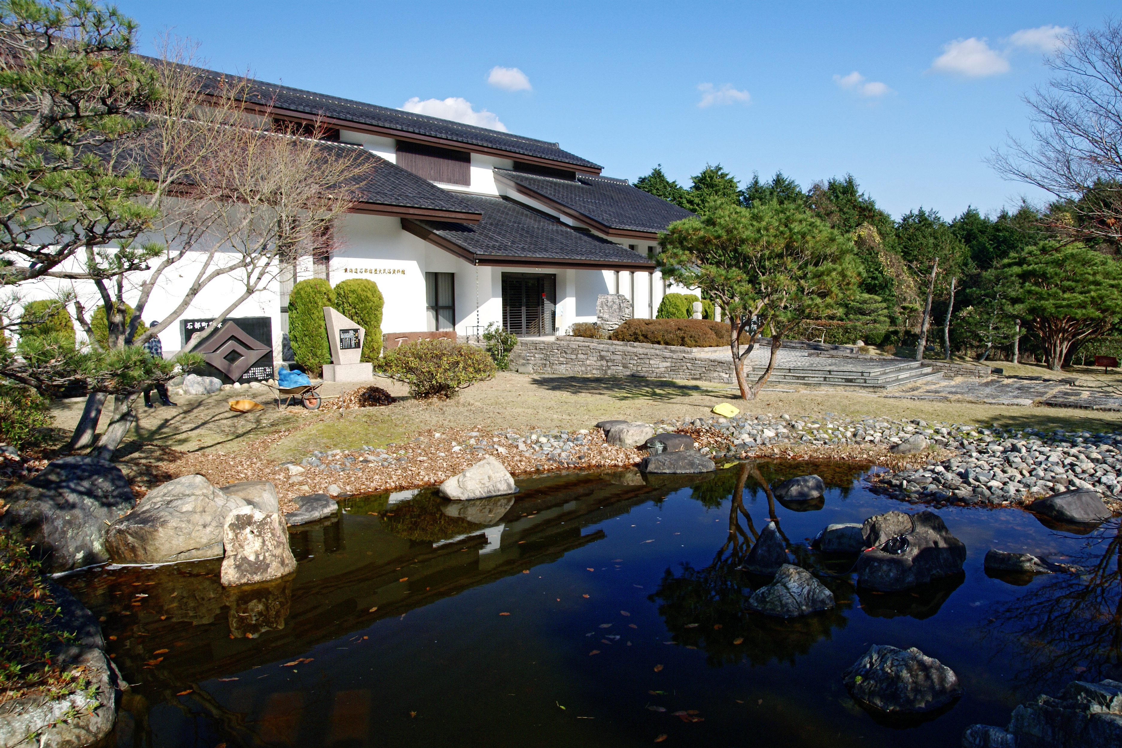 Ishibe Historical Museum in Konan, Shiga prefecture, Japan